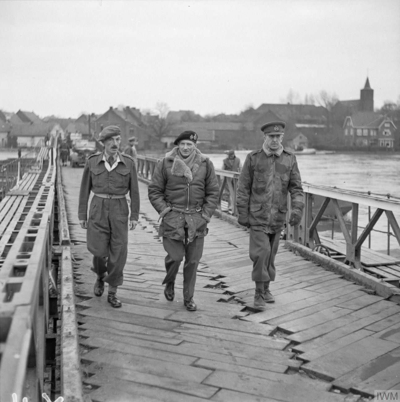 The British Army in North-west Europe 1944-45 Field Marshal Montgomery and senior officers cross a Bailey bridge over the Maas at Berg, 3 December 1944.